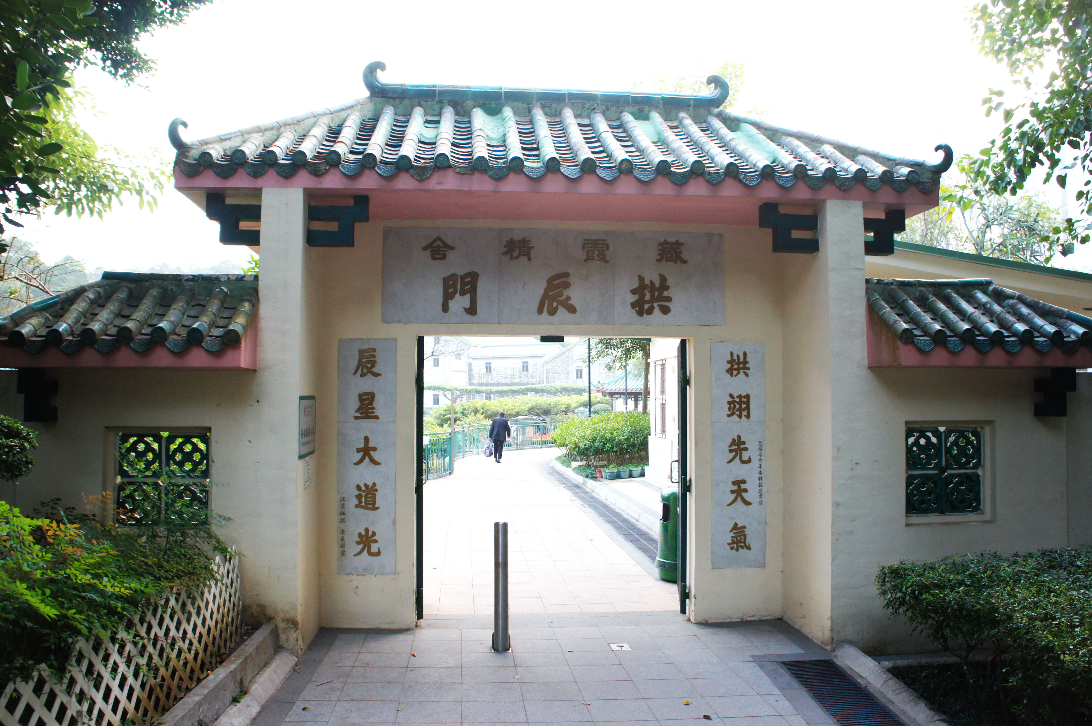 North Gate, Chong Har Ching Ser, Fanling, New Territories, Hong Kong.